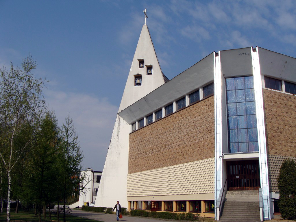 Śrem, Church of the Holy Heart of Jesus.